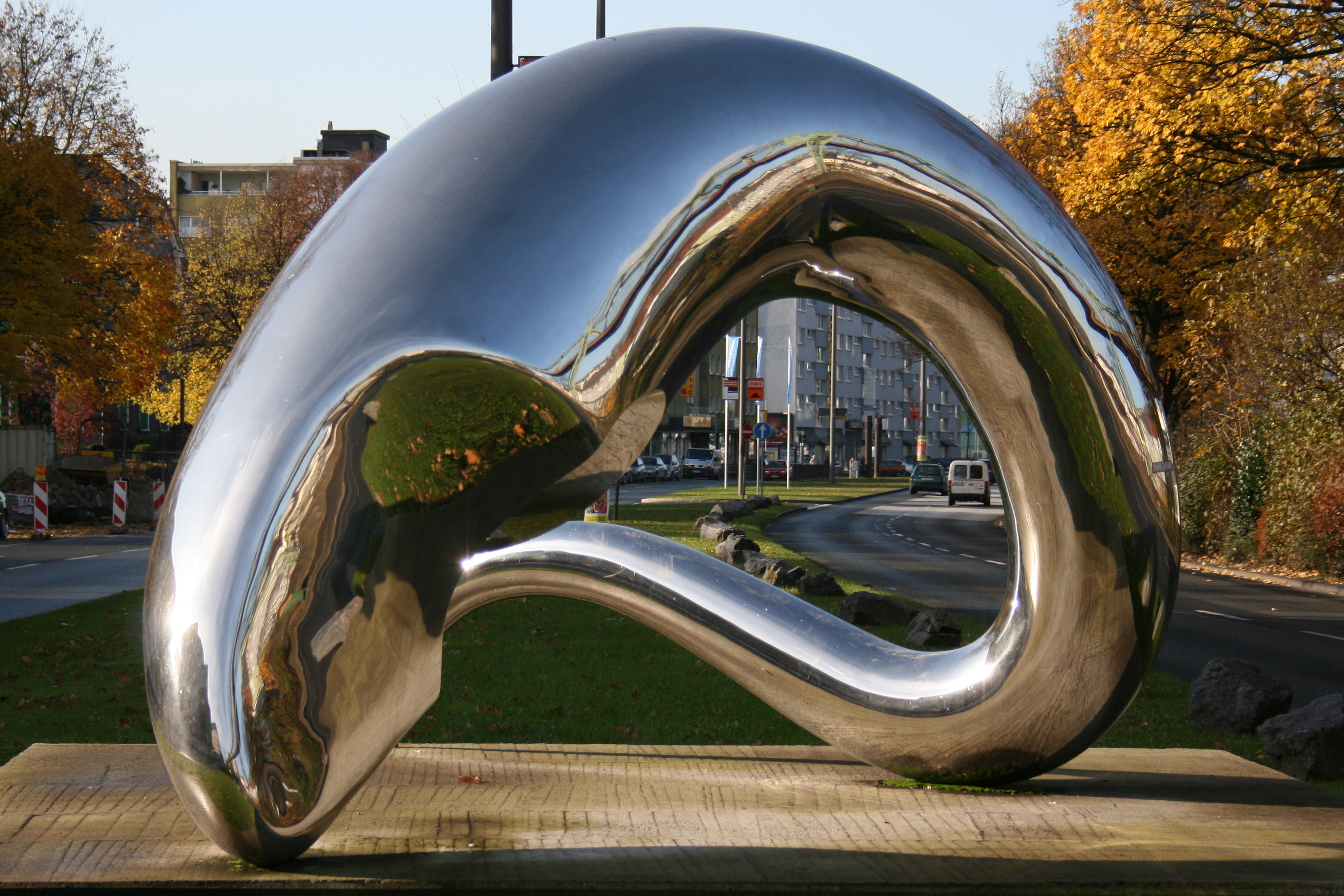 I'm alive - a sculpture by Tony Cragg in Wuppertal